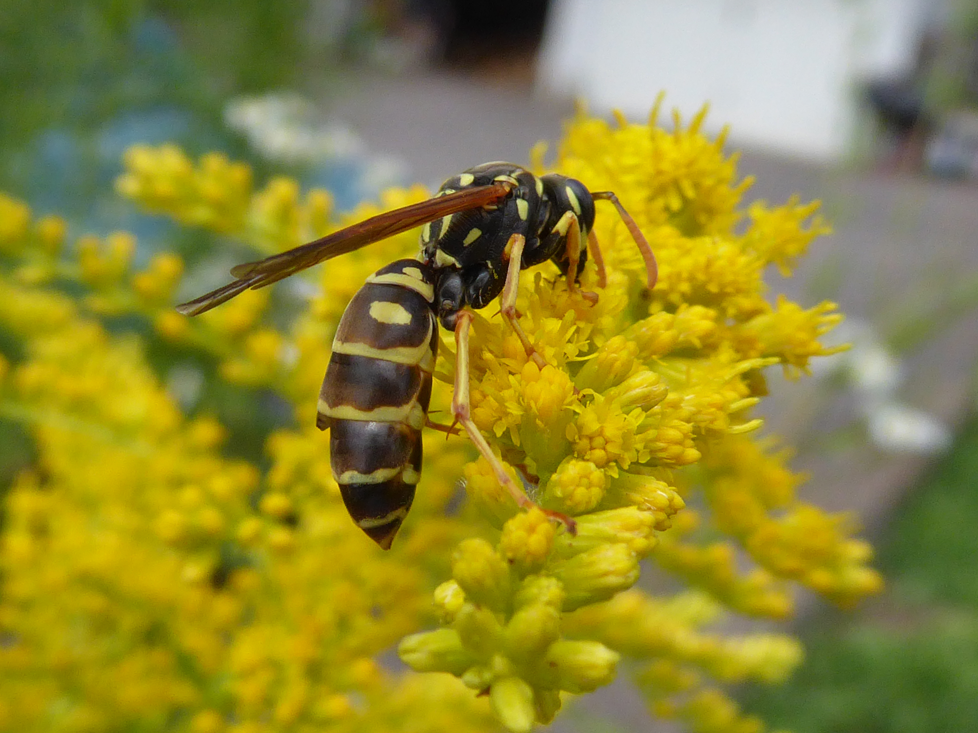 Polistes sp., probably P. dominula, parasitized by two male Xenos vesparum, Stramentizzo (Castello-Molina di Fiemme, Trentino, Italy)